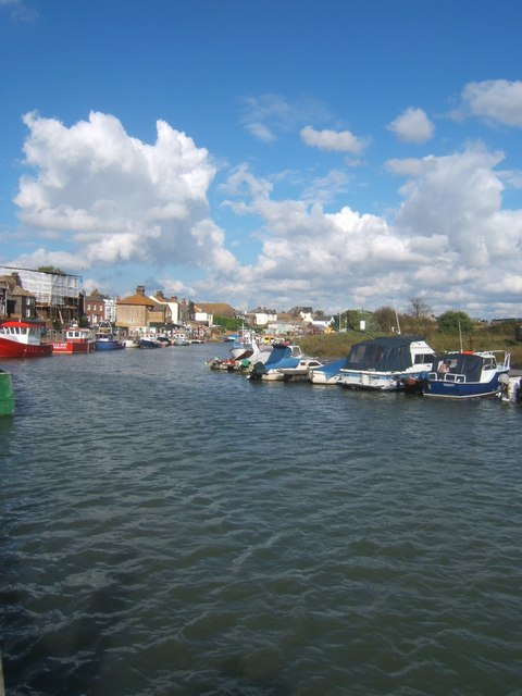 The Creek, Queenborough